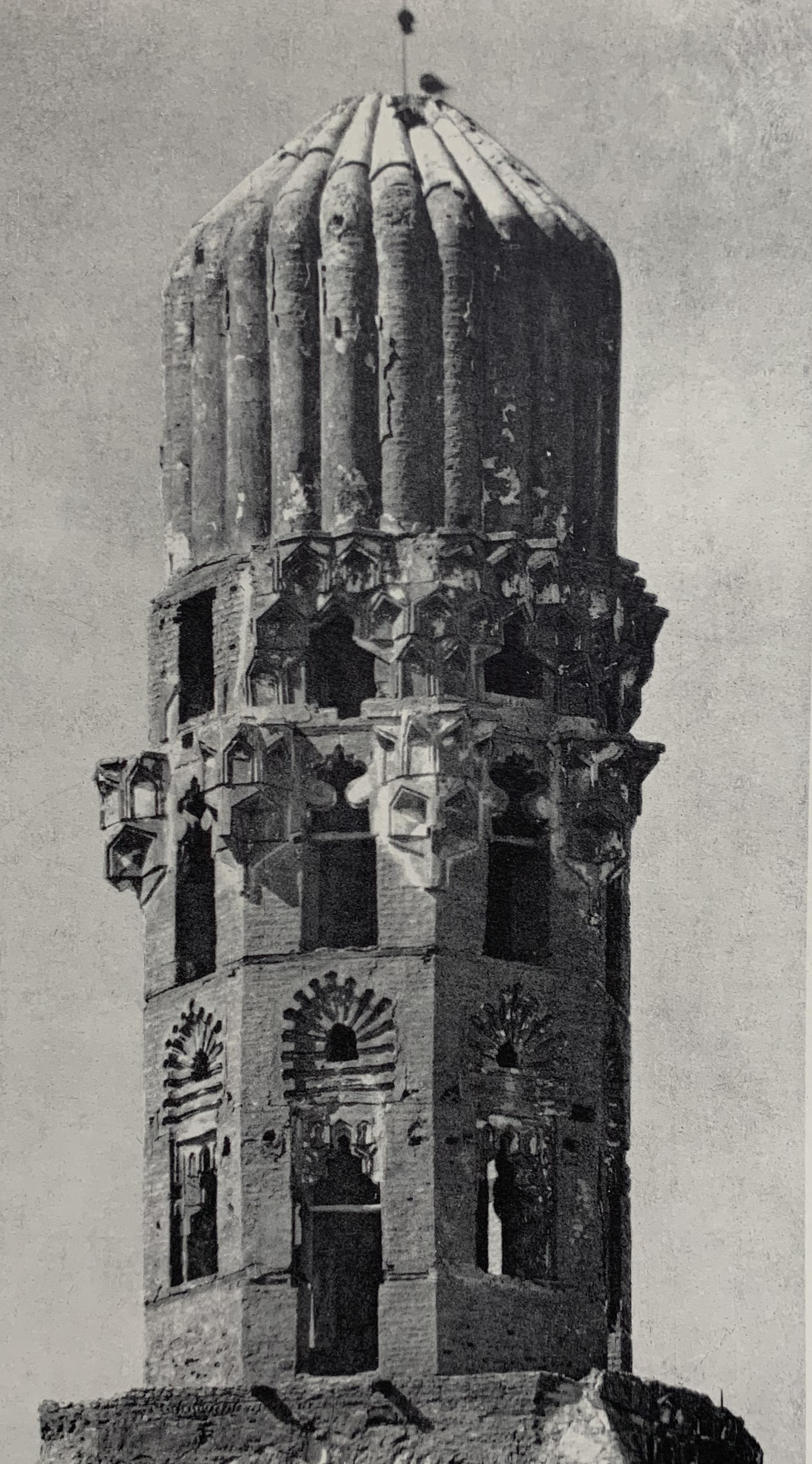 Old picture of minaret from Masjid Al Hakim